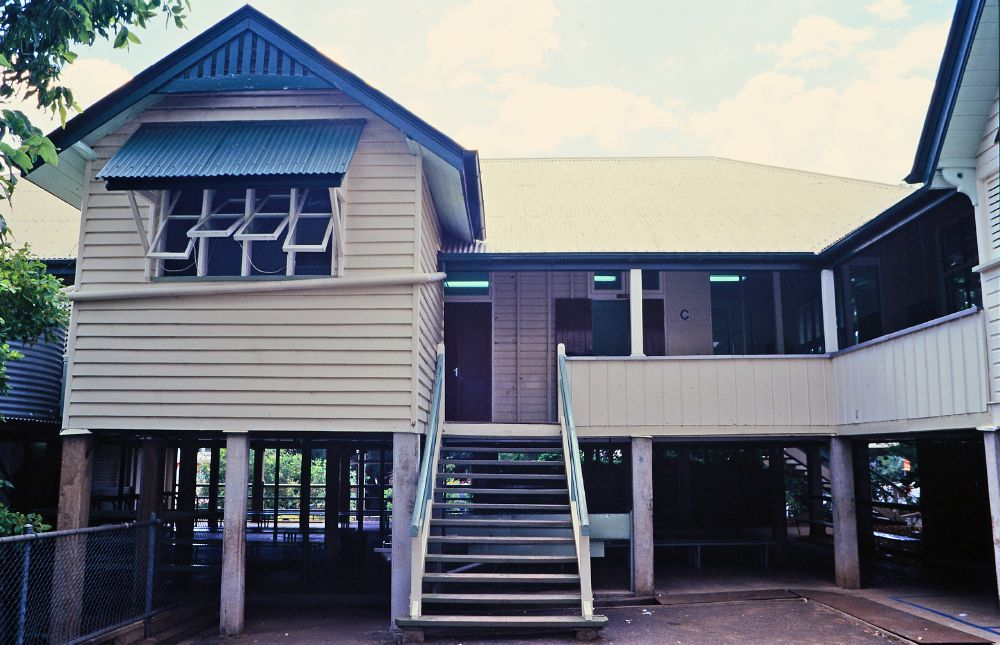 Central State School, from S to eastern end of southern elevation (2001)